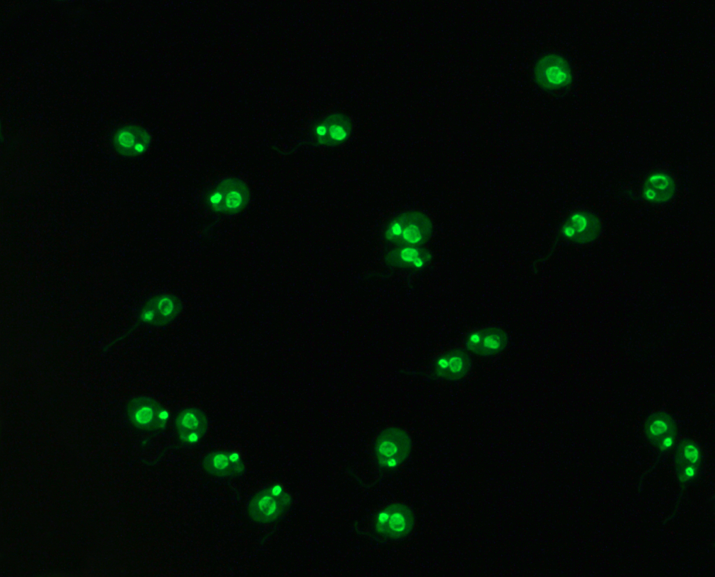 Immunofluorescence pattern of double stranded DNA antibodies (crithidia). Produced using serum from a patient with lupus erythematosus on Crithidia luciliae with a FITC conjugate. Note the stained kinetoplast (found adjacent to the flagellum), indicating that dsDNA antibodies are present in the patient's serum.